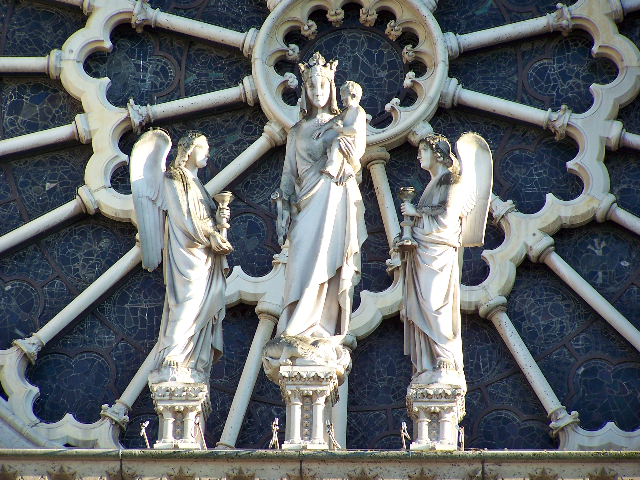 Groupe de la Vierge à l'Enfant sur la façade de la cathédrale ND de Paris.